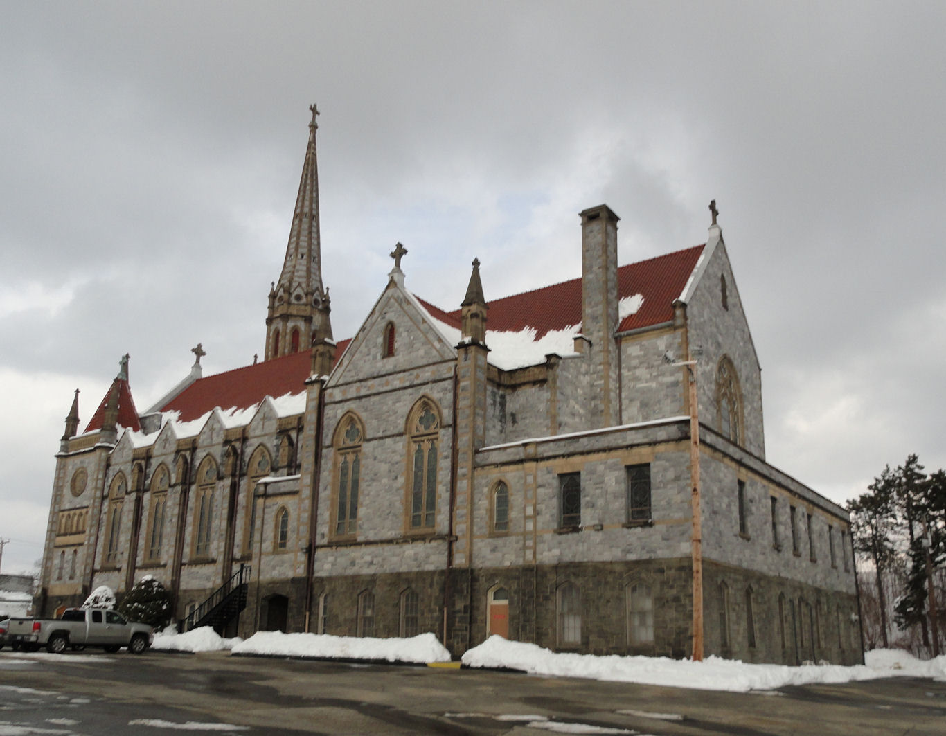 St. Patrick Church, Bridgeport, Connecticut, Dwyer and McMahon, architects, rear view